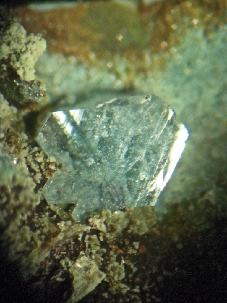 Susannite Locality: Lautenthal smelter (slag locality), Lautenthal, Harz, Lower Saxony, Germany Original description: dimension area mm. 4 x 4